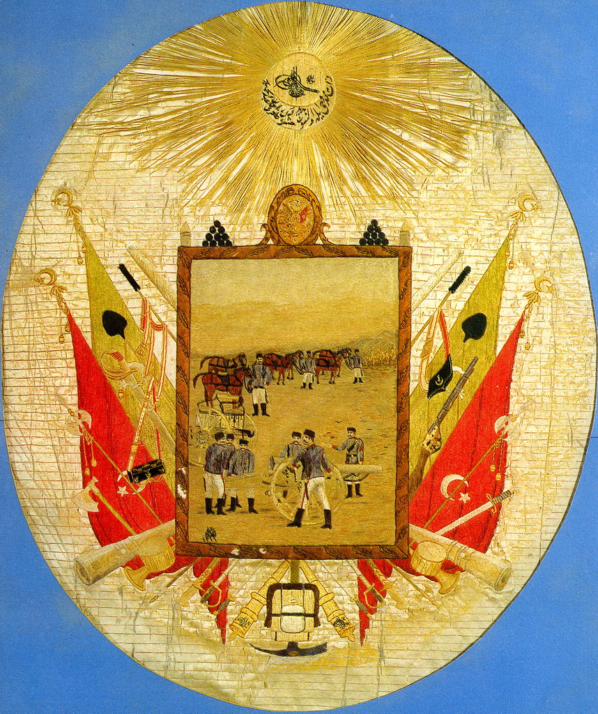 Artillery troop image on the Ottoman coat of arms. From